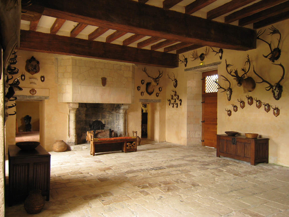 Former mediaeval Castle Le Rivau near the Loire river in France, great hall